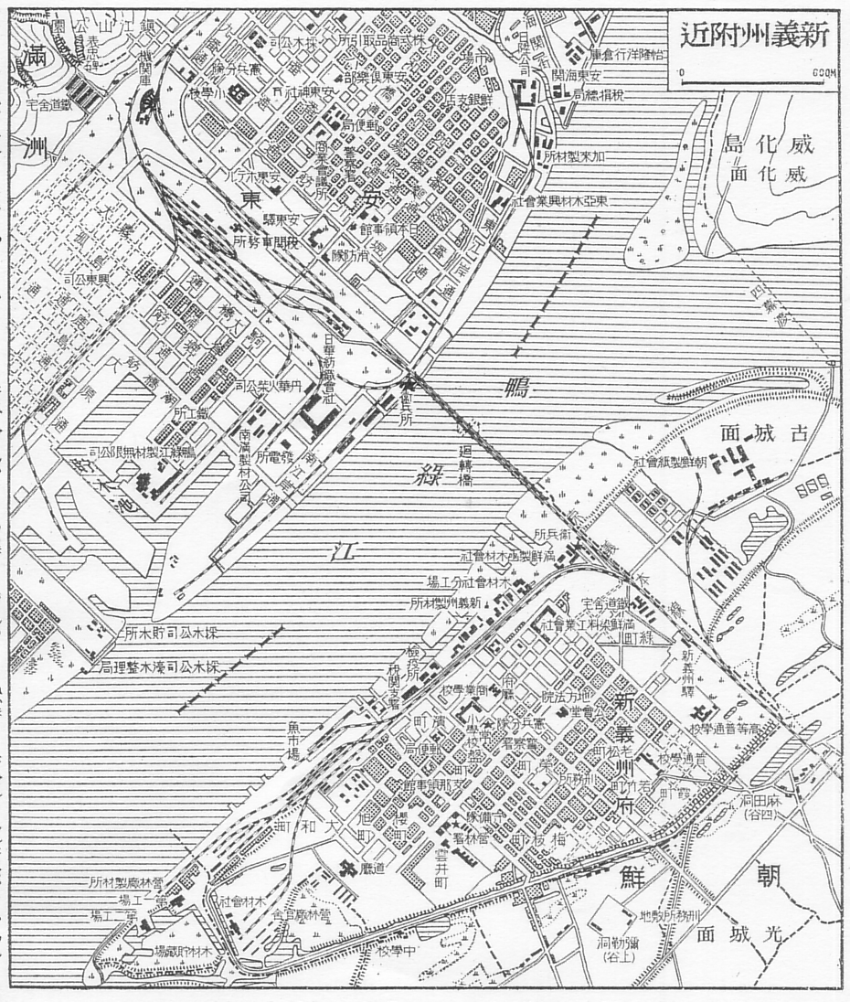 Andong(Dandong) and Shingishu(Sinuiju) map circa 1930